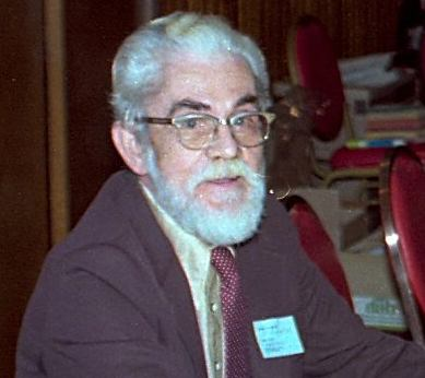 Captain Marvel creator C. C. Beck (Charles Clarence Beck) at the October, 1982 Minneapolis Comic-Con. (Mr. Beck died November 22, 1989.) depicted person: C. C. Beck (age: 72)